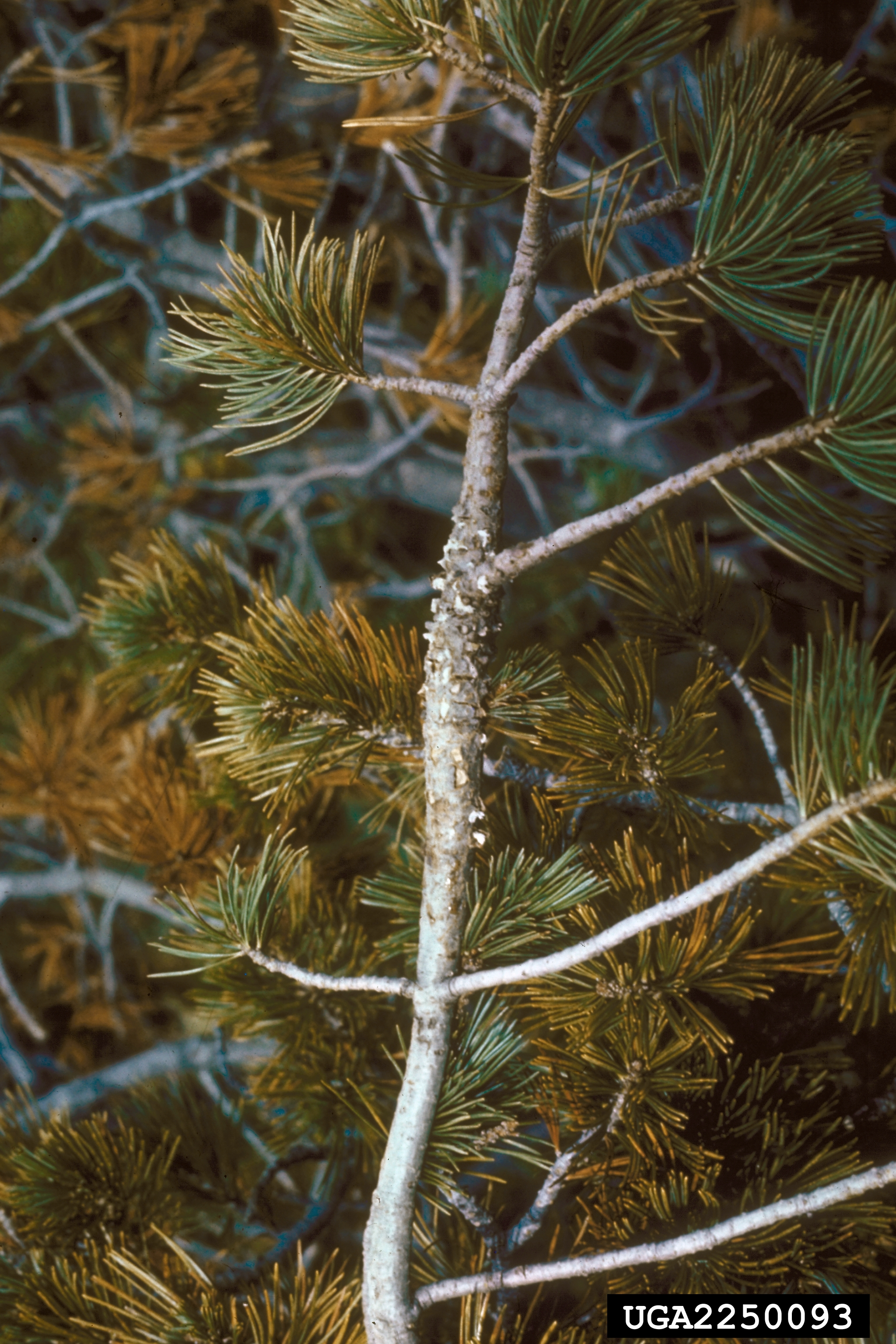 Cronartium_ribicola at Pinus albicaulis: aecia on white bark pine